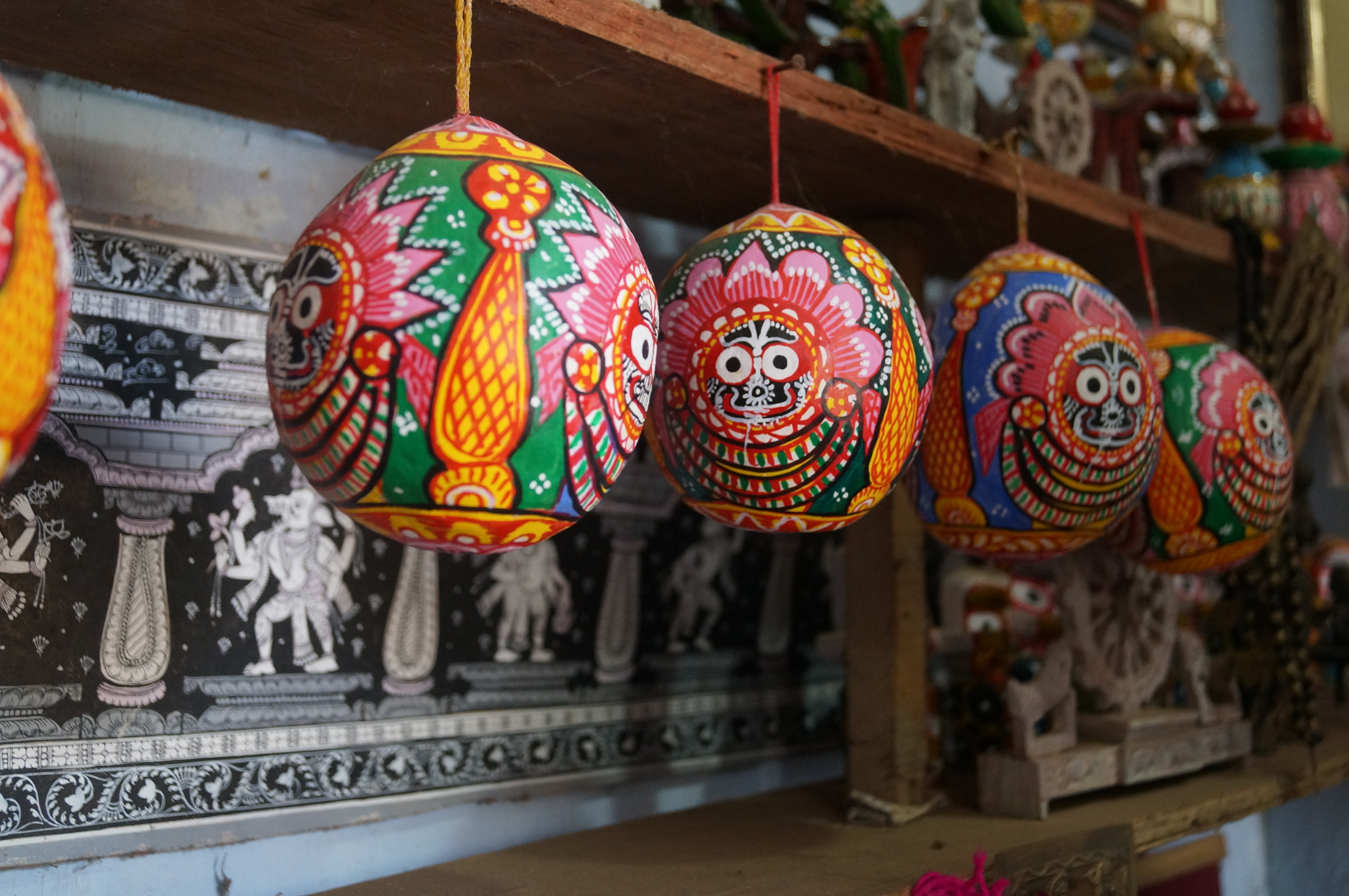 The vibrant colors on the betel nuts depicting the Lord Jagannatha and his siblings